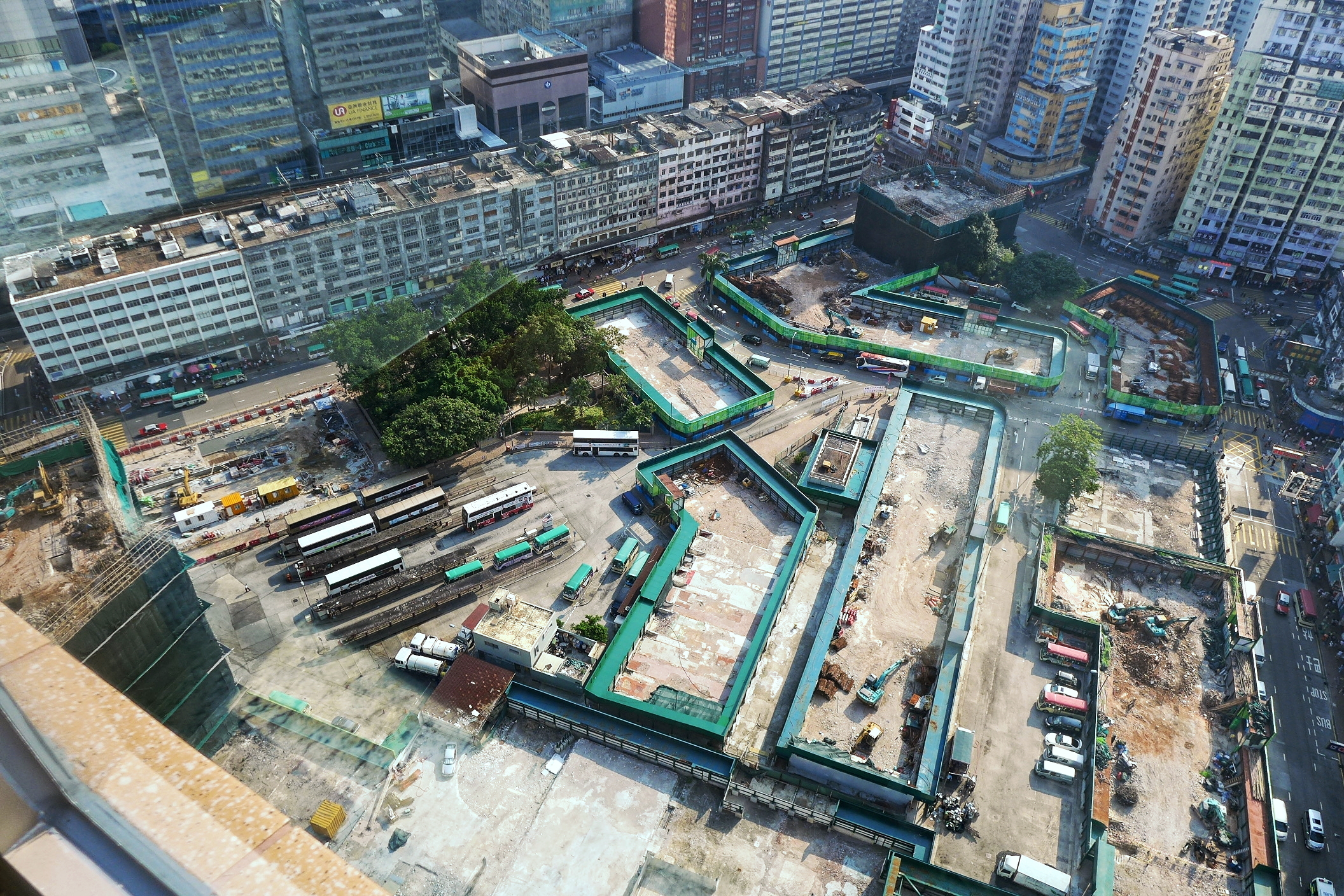 Kwun Tong Town Centre Redevelopment Site